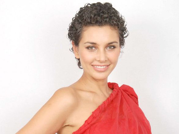 Lisa Ray at TLC announces new series